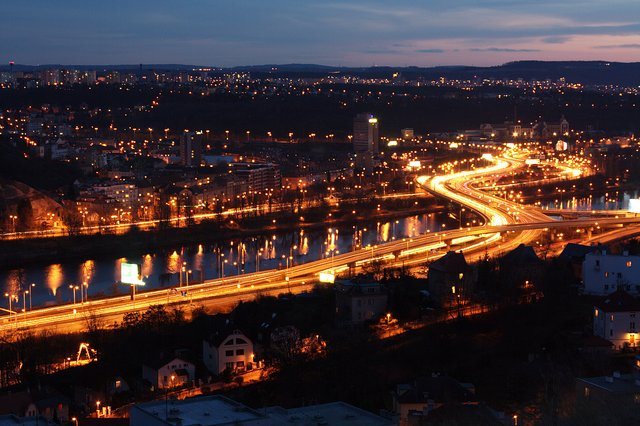 Prague - Barrandov bridge at night.